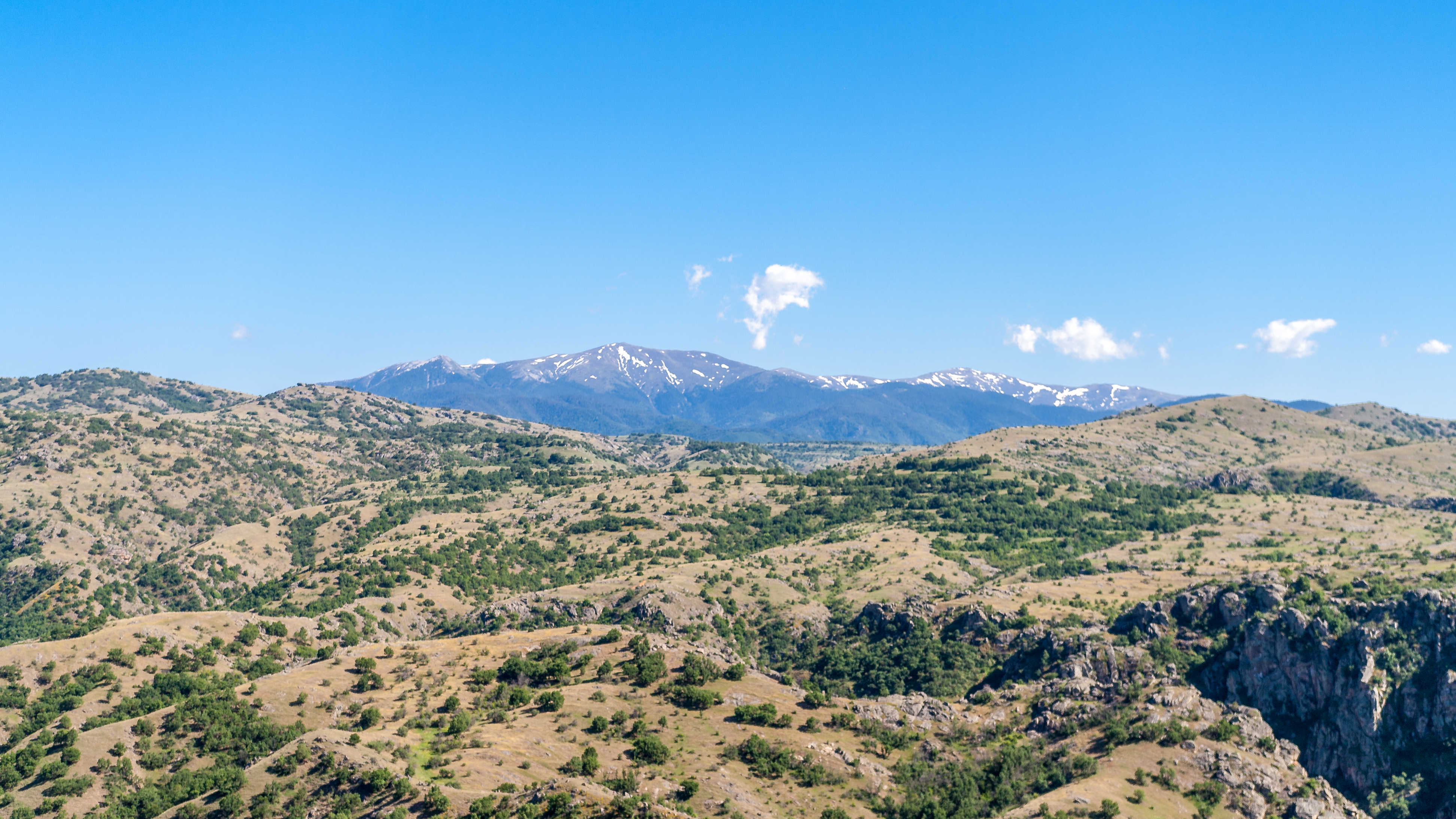 Landscape in Mariovo